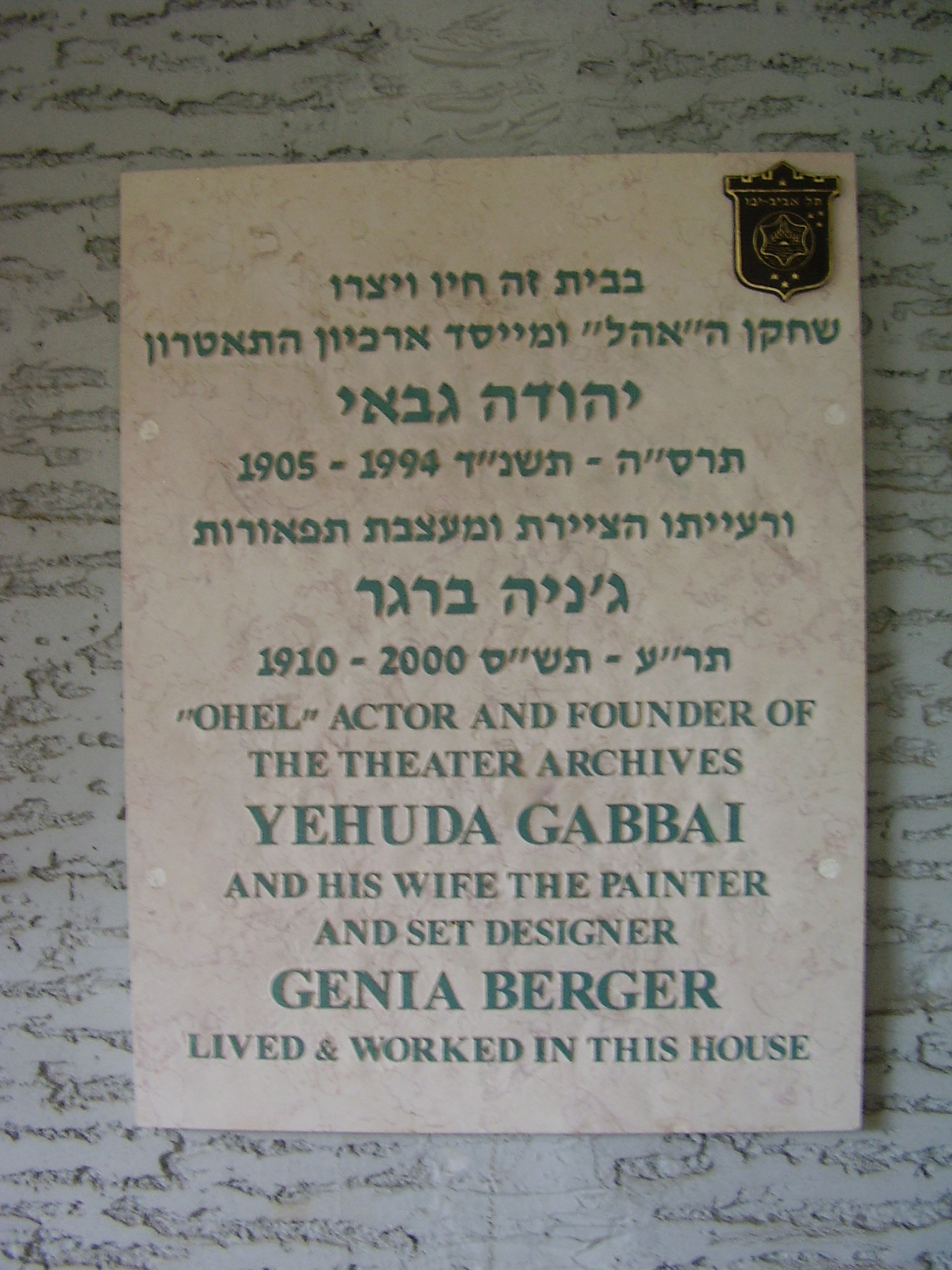 memorial plaque on the house of the actor yehuda gabai and the painter genia berger in tel aviv לוחית זיכרון על ביתם של השחקן יהודה גבאי ואשתו הציירת ג'ניה ברגר ברח' דב הוז 23 בתל אביב